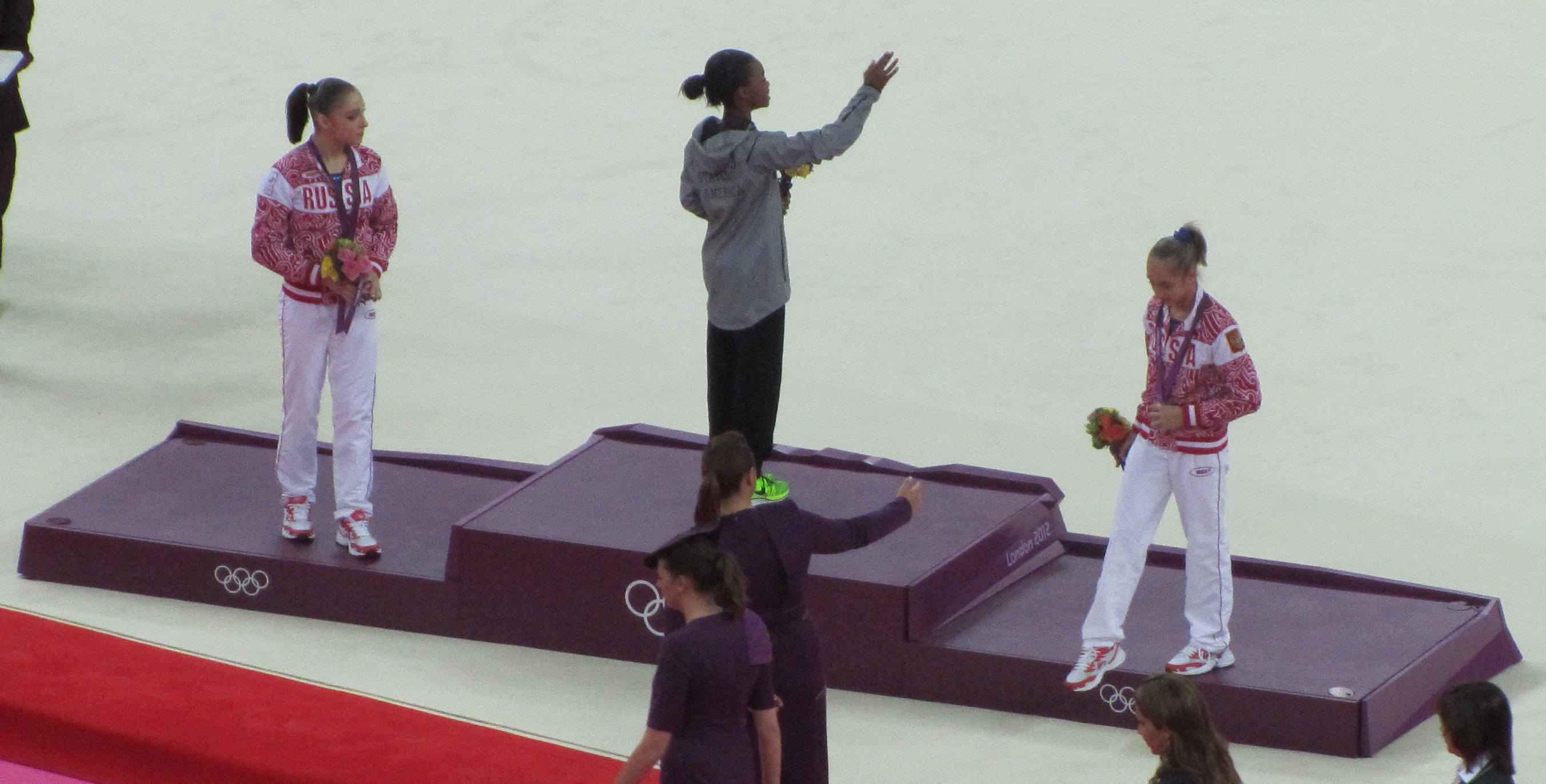 Gold: Gabrielle Douglas (USA); Silver: Viktoria Komova (Russia); Bronze: Aliya Mustafina (Russia)